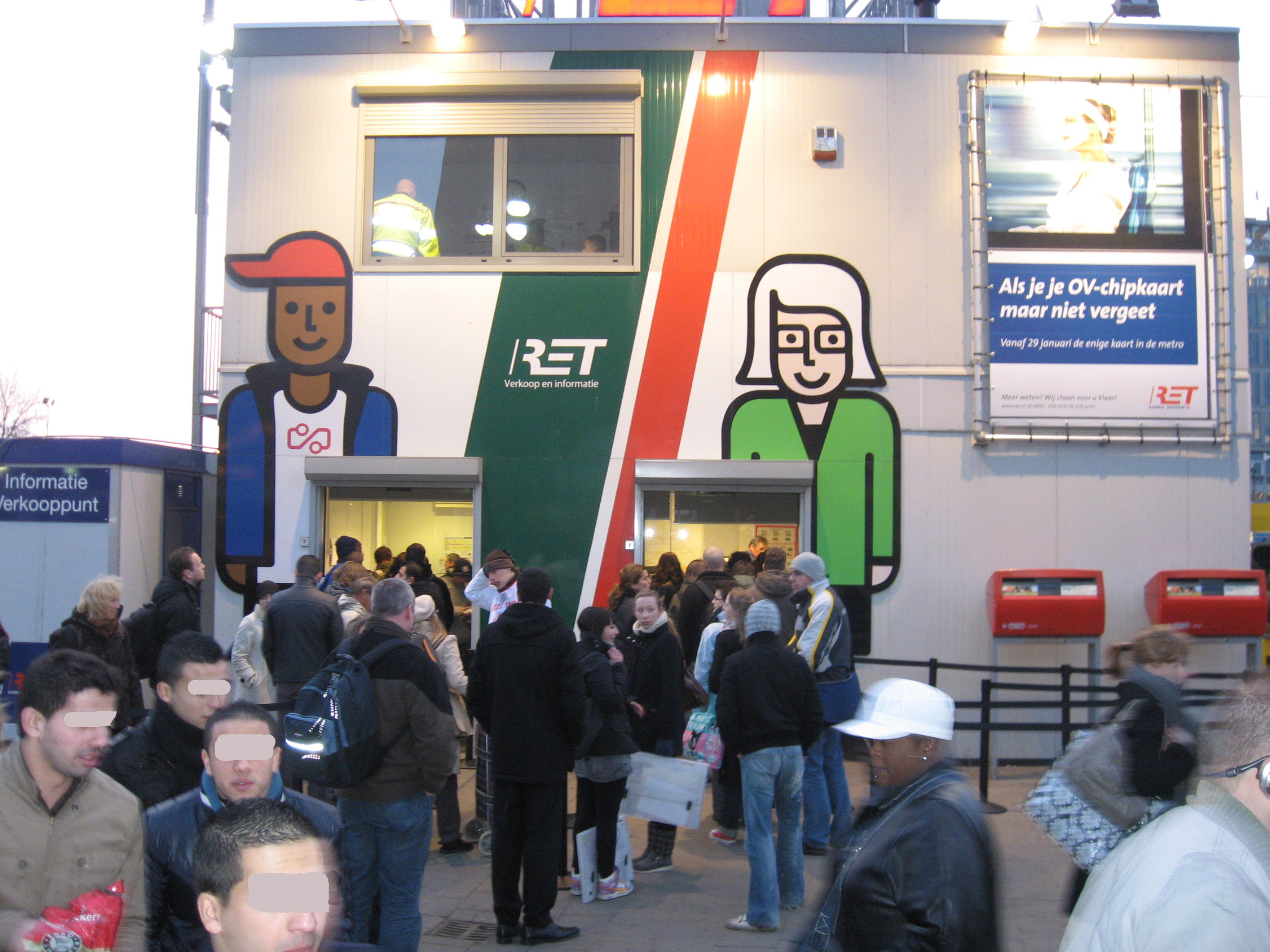 29 januari 2009 was the first day that the Rotterdam metro could only be accessed with a OV-chip card. Long queus by the RET selling point, for the last-minute buying and information off the OV-Chip card are the result. This is a temporary selling/info office due to the contruction works at the central station of Rotterdam.